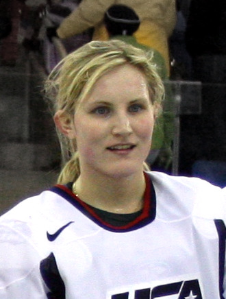 Monique Lamoureux; The United States women's national ice hockey team after a game against the ECAC All-Stars on January 3, 2010.